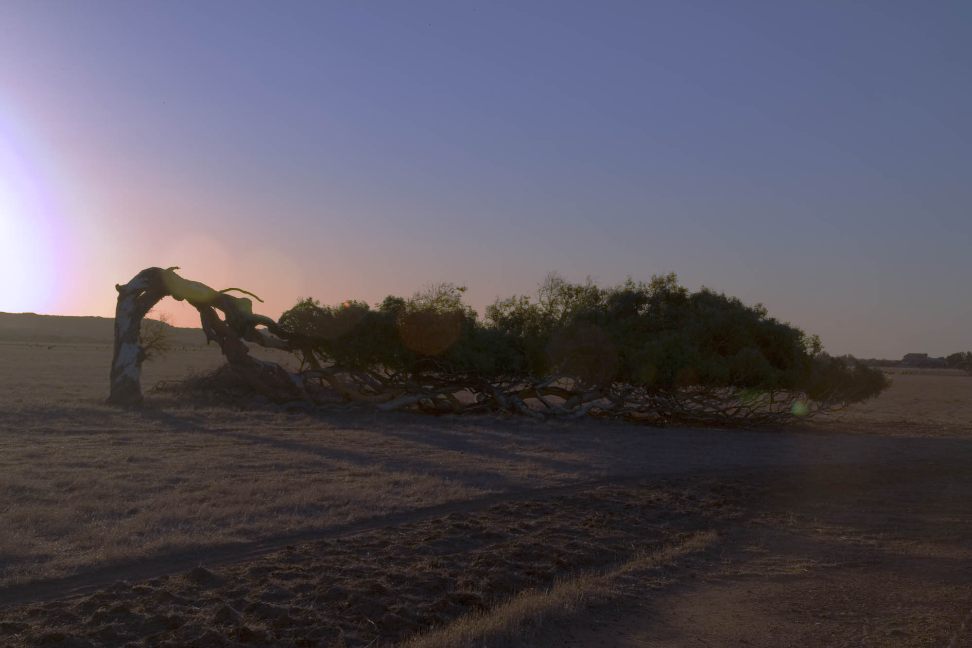 This is a photograph of one of the famous leaning trees of Greenough, Western Australia.